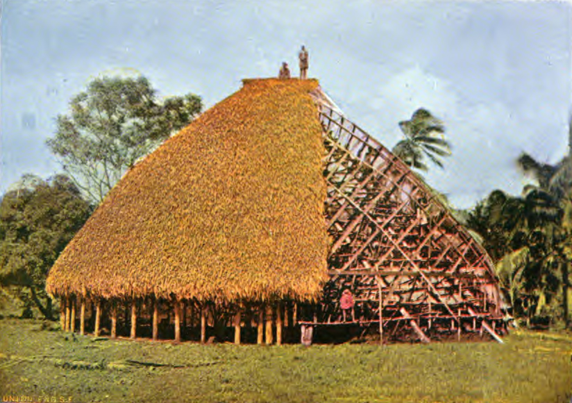 Samoan house Apia 1896. Correct name spelling should be 'Seumanutafa', but I've left the original photo description as it was published in the 1896 book.